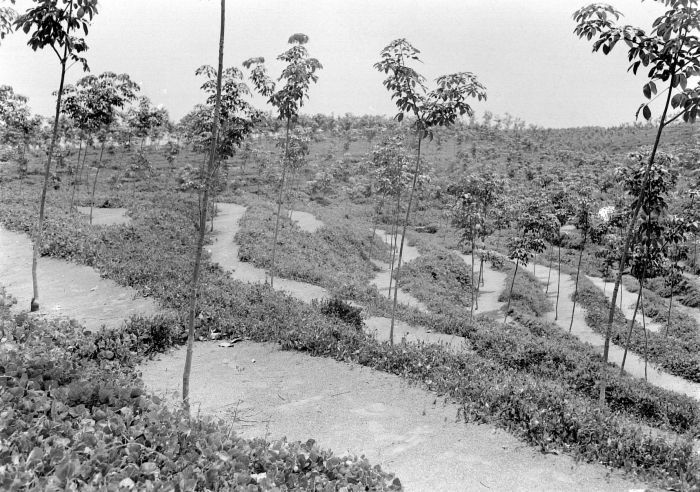 Young rubber plant (Calopogonium) on a plantation